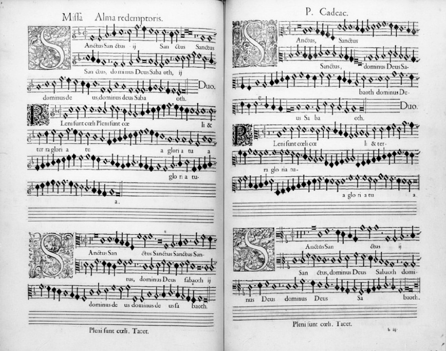 Two pages from Pierre Cadeac's Missa Alma Redemptoris Mater, (Paris : LRB, 1556).